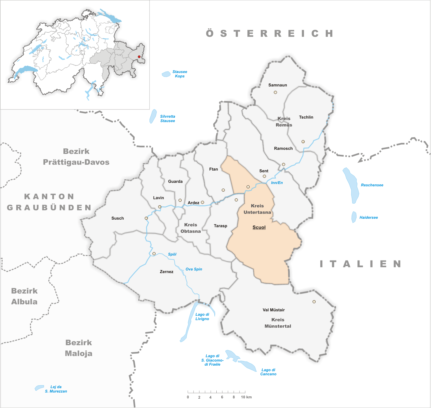 Municipality Scuol